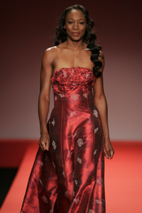 Venus Williams in red dress. For the National Heart, Lung, and Blood Institute's "National Wear Red Day" to raise awareness about heart disease